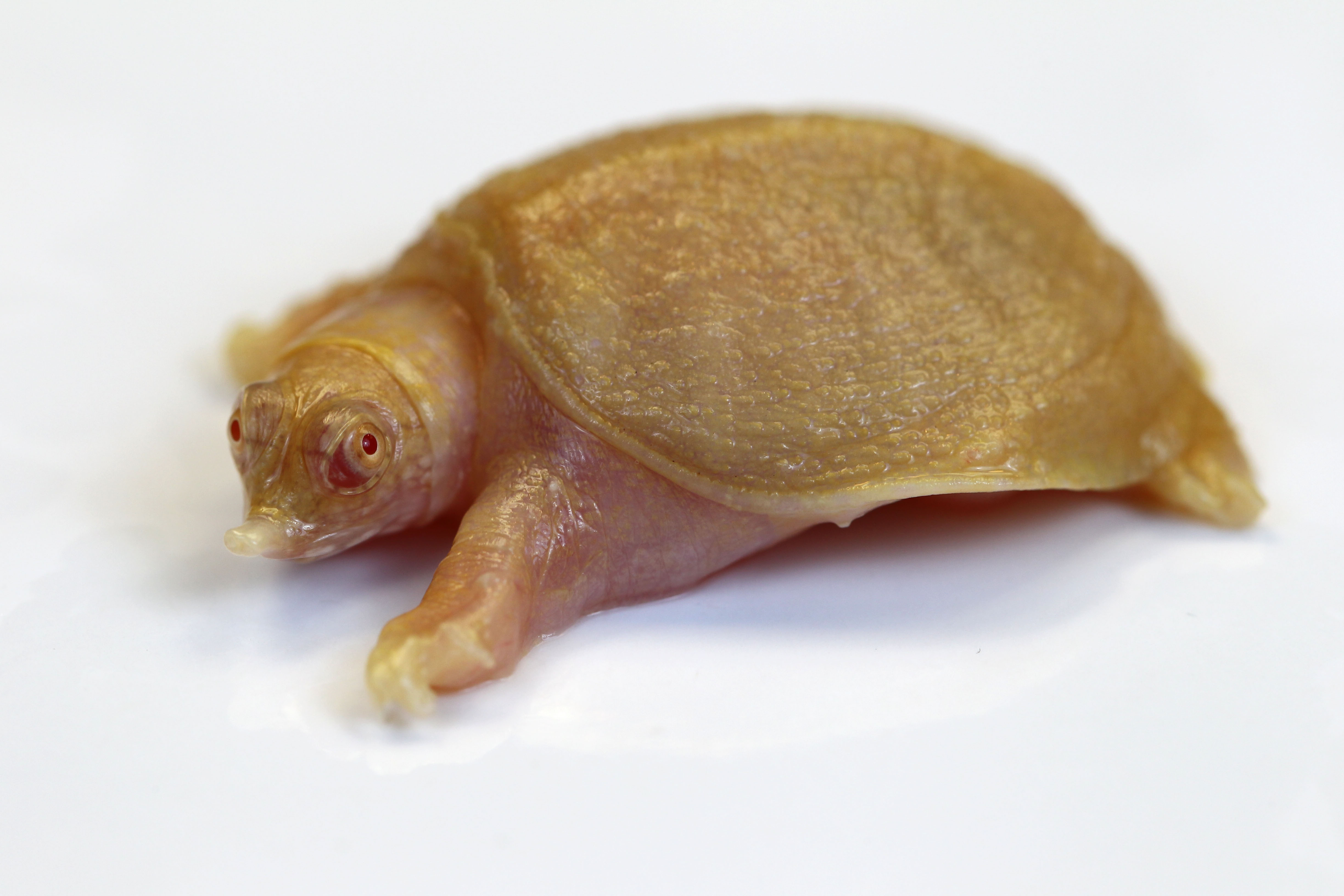 A Chinese soft-shelled albino turtle recovered during Operation Jungle Book. Charges were recently filed against 16 defendants in connection with Operation Jungle Book – the largest prosecutorial sweep in the Los Angeles area. The operation was given its name due to the volume and variety of animals that were seized recently in the Los Angeles area. Photo by USFWS.